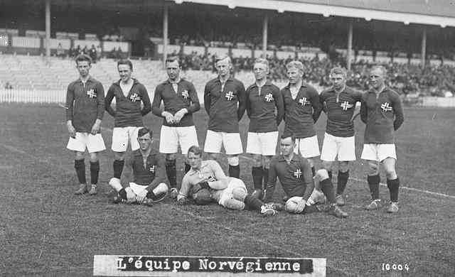 The Norwegian national football team that won 3-1 against England at the 1920 Olympics. Back row: Michael Paulsen, Einar Wilhelms, Adolph Wold, Gunnar Andersen, Asbjørn Halvorsen, Einar Gundersen, Johnny Helgesen, Per Holm. Front row: Otto Aulie, Sigurd Wathne, Per Skou.